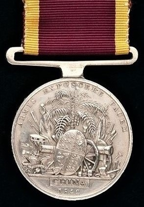 British / Honourable East Inia Company campaign medal for service in the China campaign of 1842.